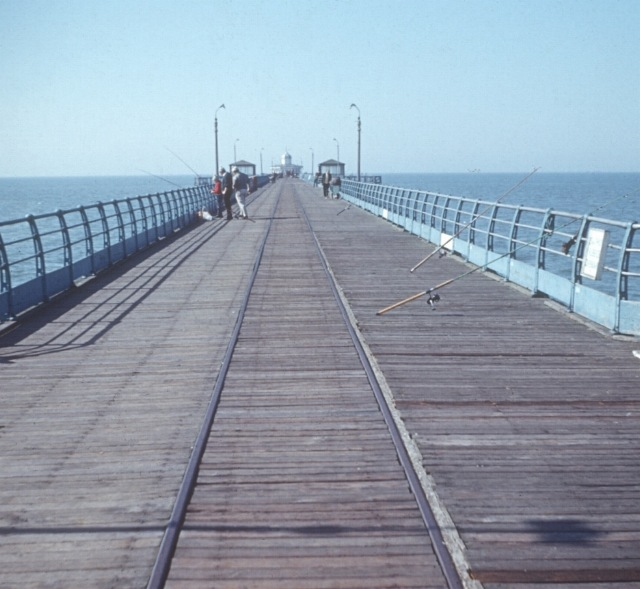 Herne Bay pier in the 1960's. Looking towards the seaward end of the pier, which at one time was a landing stage for visiting steamers. This was the third pier to be built at Herne Bay, opened in 1897. Estimates of its length vary from 1097m to 1147m, putting it second to the one at Southend-on-Sea. The length was sufficient to justify the provision of a small electric railway, the rails of which are visible in the photo. Steamboat services from the end of the pier ceased in 1963 and public access to the pier was denied in 1968 when it was considered to be in a dangerous state. Winter storms in 1978 and 1979 caused the collapse of the central section leaving the landing stage as it is now, adrift at sea. The landward stub of the pier now houses a sports centre. The full length pier made an appearance in Ken Russell's first feature film French Dressing in 1964. Best estimate for the date of this photo is 1965-1967.